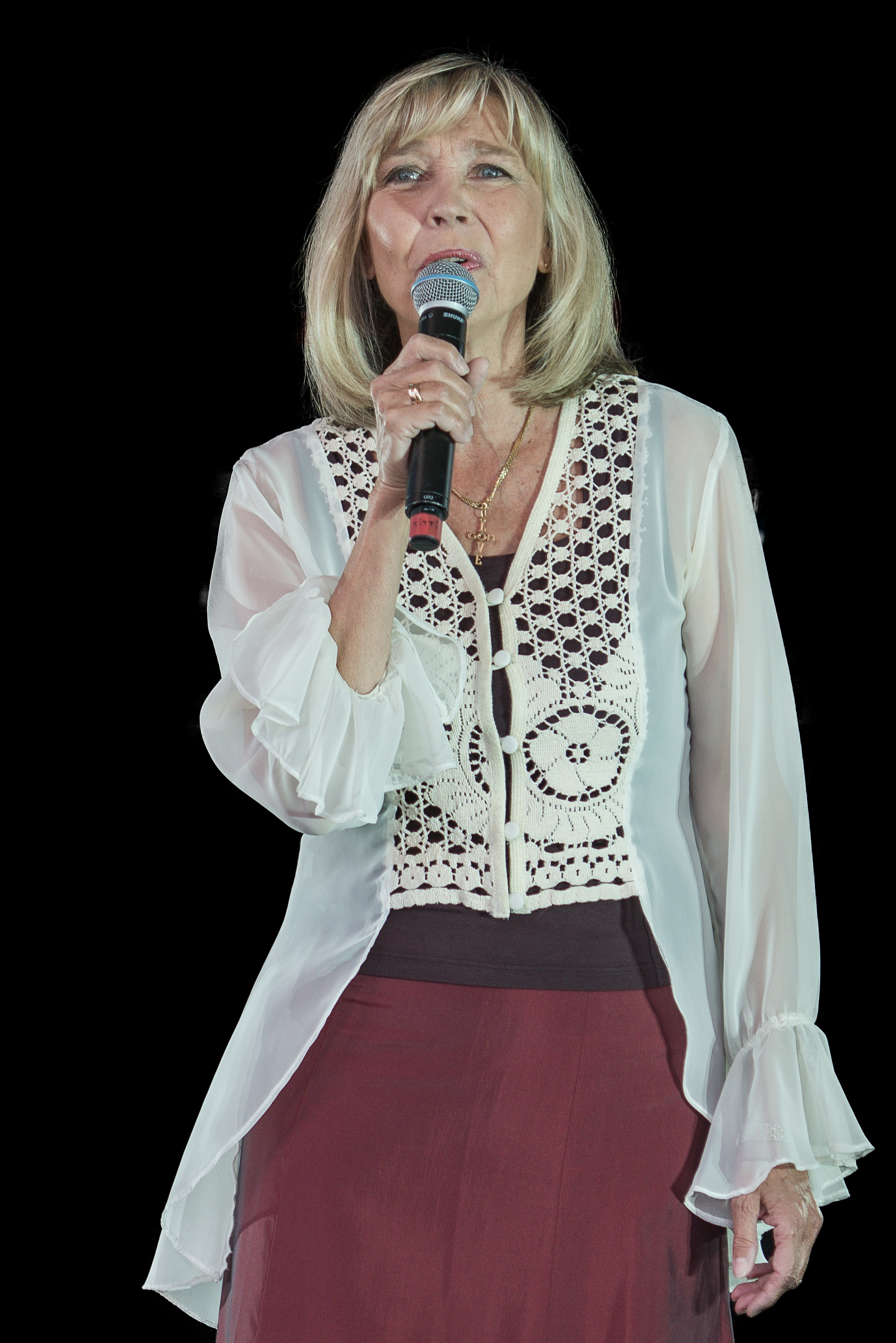 Titti Sjöblom July 2014